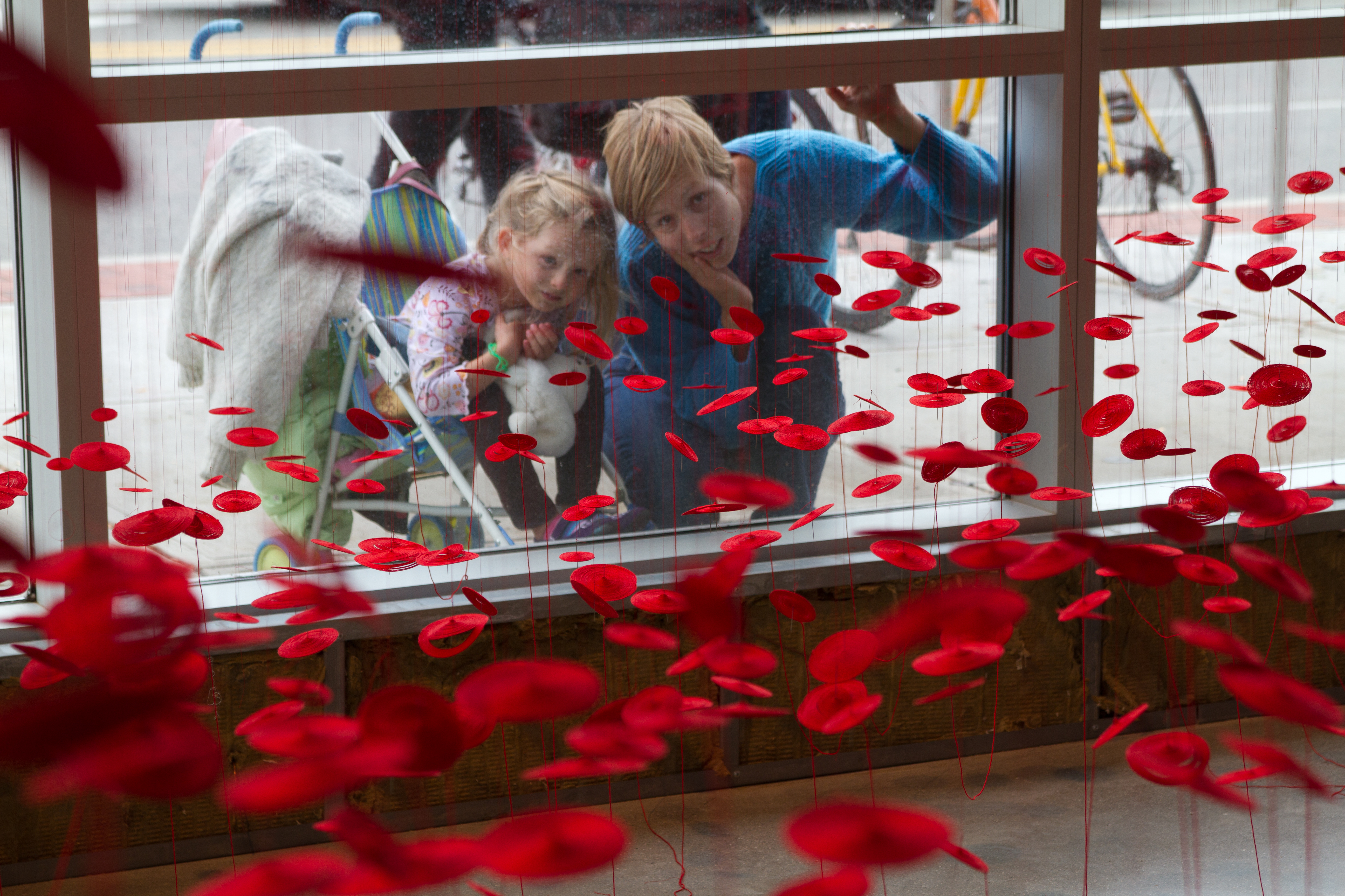 Artwork installed at ArtPrize in 2010, including a mother and child